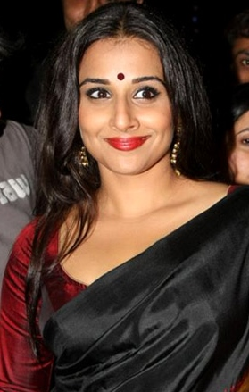 Vidya Balan at the Colors Screen Awards, 2012